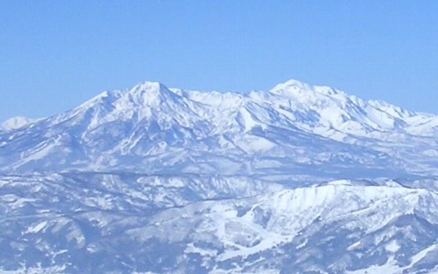 Mount Myoko (left) & Mount Hiuchi (right) as seen from the East.